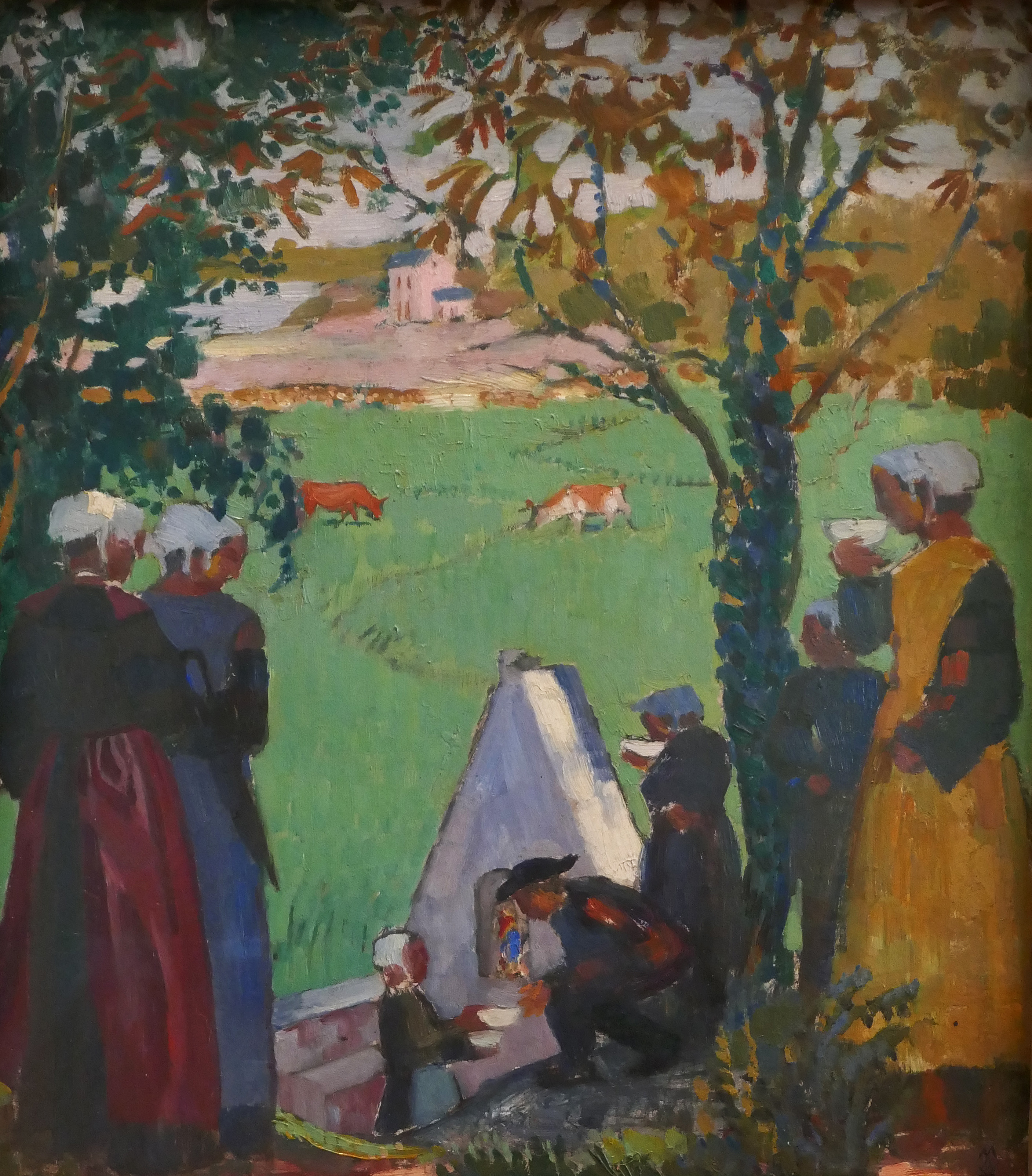 Maurice Denis, The Sacred Spring at Guidel, ca. 1905. Oil on canvas. Hermitage Museum, St. Petersburg. This is a faithful photographic reproduction of a two-dimensional, public domain work of art. The work of art itself is in the public domain for the following reason: The author died in 1943, so this work is in the public domain in its country of origin and other countries and areas where the copyright term is the author's life plus 75 years or fewer. You must also include a United States public domain tag to indicate why this work is in the public domain in the United States. Note that a few countries have copyright terms longer than 75 years: Mexico has 100 years, Jamaica has 95 years, and Colombia has 80 years. This image may not be in the public domain in these countries, which moreover do not implement the rule of the shorter term. Côte d'Ivoire has a general copyright term of 99 years, but it does implement the rule of the shorter term. This file has been identified as being free of known restrictions under copyright law, including all related and neighboring rights. The official position taken by the Wikimedia Foundation is that "faithful reproductions of two-dimensional public domain works of art are public domain".This photographic reproduction is therefore also considered to be in the public domain in the United States. In other jurisdictions, re-use of this content may be restricted; see Reuse of PD-Art photographs for details.